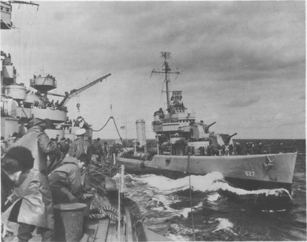 The U.S. Navy destroyer USS Thompson (DD-627) refuels from the battleship USS Arkansas (BB-33) in April 1944 while rehearsing for the Normandy invasion.